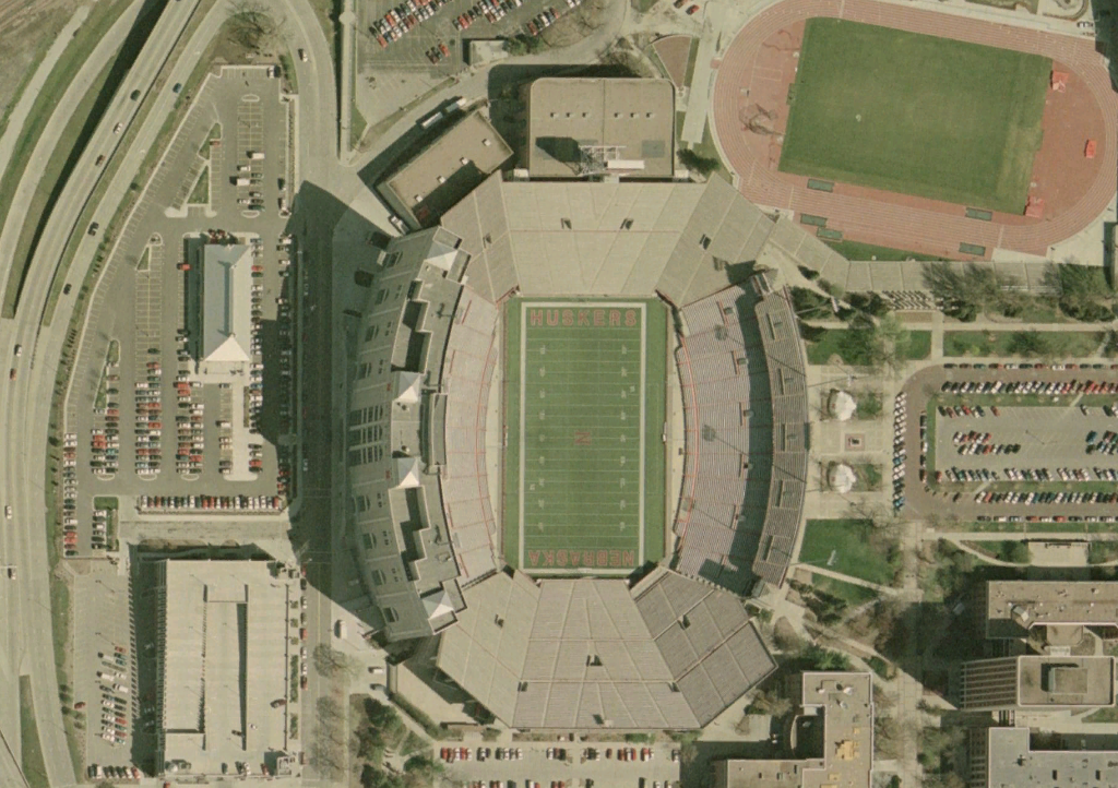 Memorial Stadium (Lincoln) satellite view, nasa world wind 1.3.5